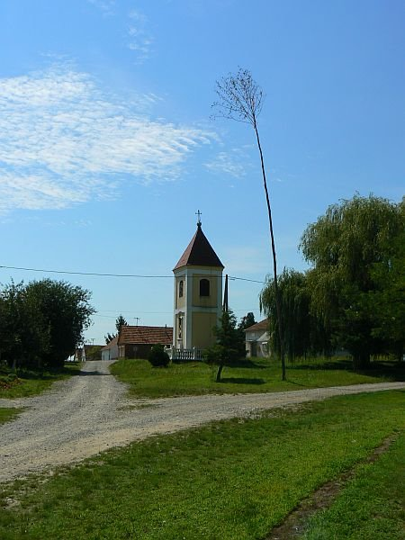 The bell tower in the center of Gornje Predrijevo, Croatia